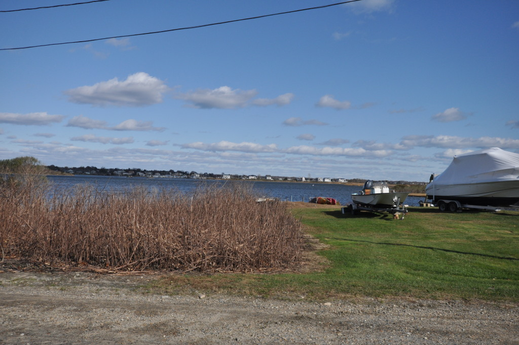 View of Potter Pond from the Matunuck Beach area, South Kingstown (not Charlestown), Rhode Island. The entire area is part of the Potter Pond Archeological District.